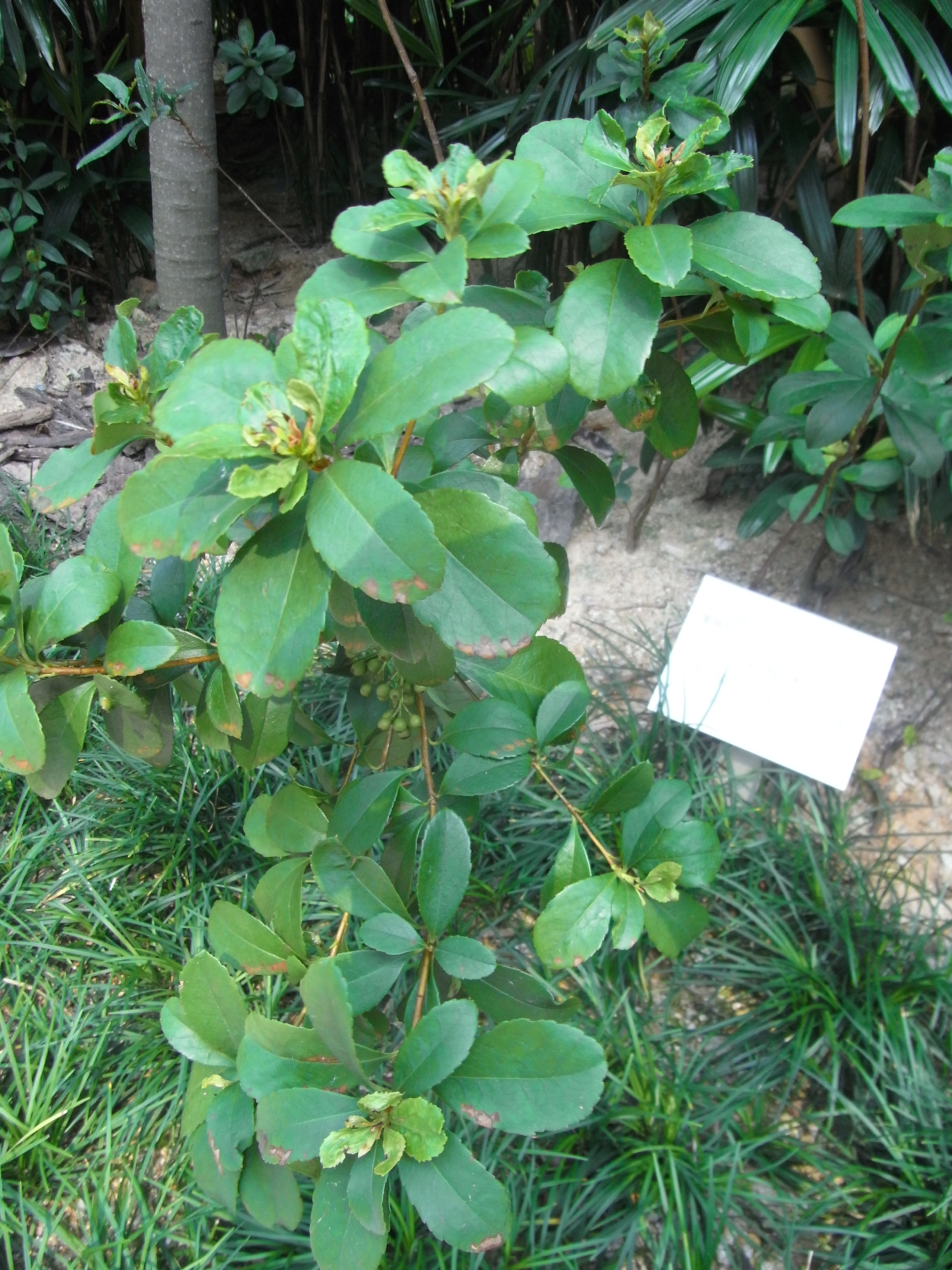 港灣道花園, Harbour Road Garden, Wan Chai North, Hong Kong 石斑木